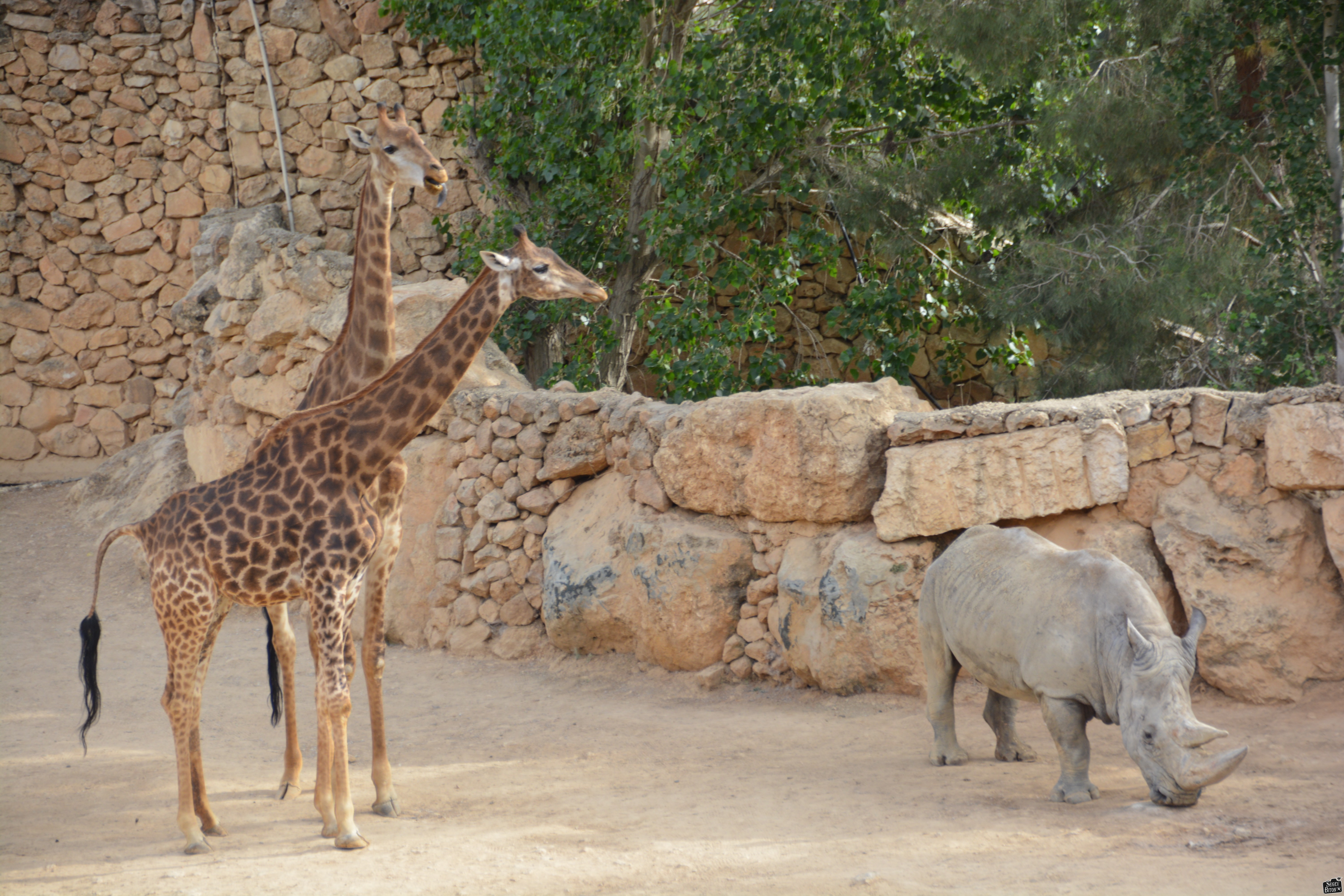 Biblical Zoo in Jerusalem